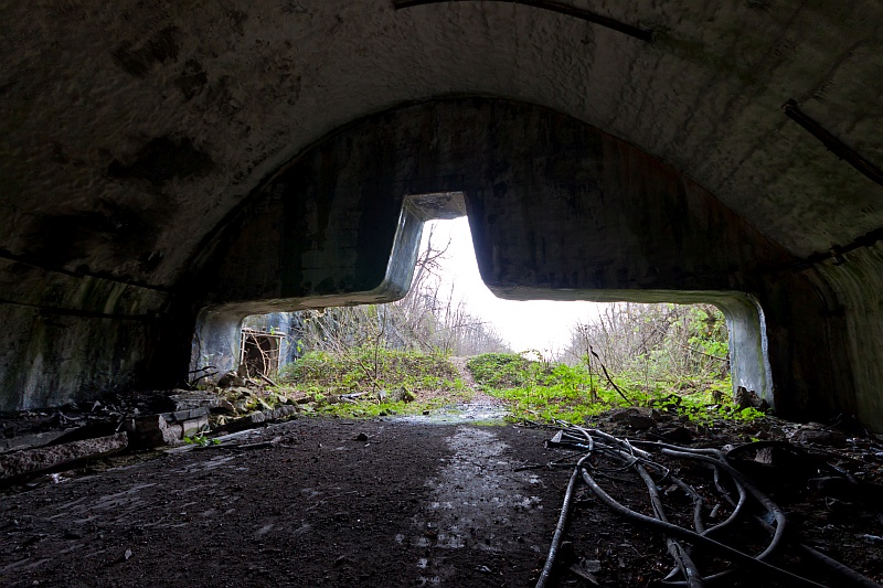 Entrance no.2